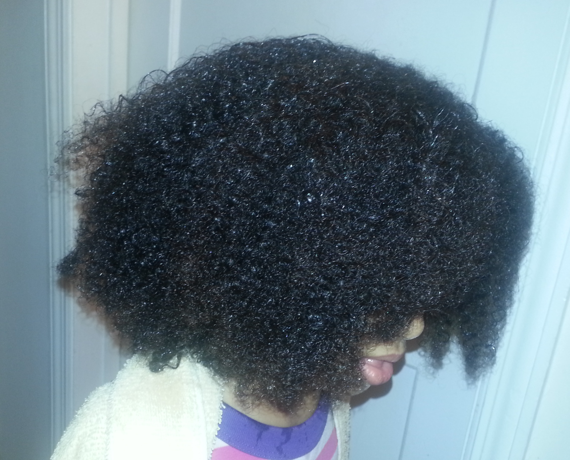 Natural african american hair after being washed and moisturized.